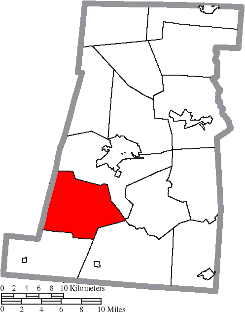 Map of the municipal and township boundaries of Madison County, Ohio, United States, as of the 2000 census, with the location of Paint Township highlighted. Township borders are shown only in unincorporated areas in order to differentiate incorporated and unincorporated areas more clearly.